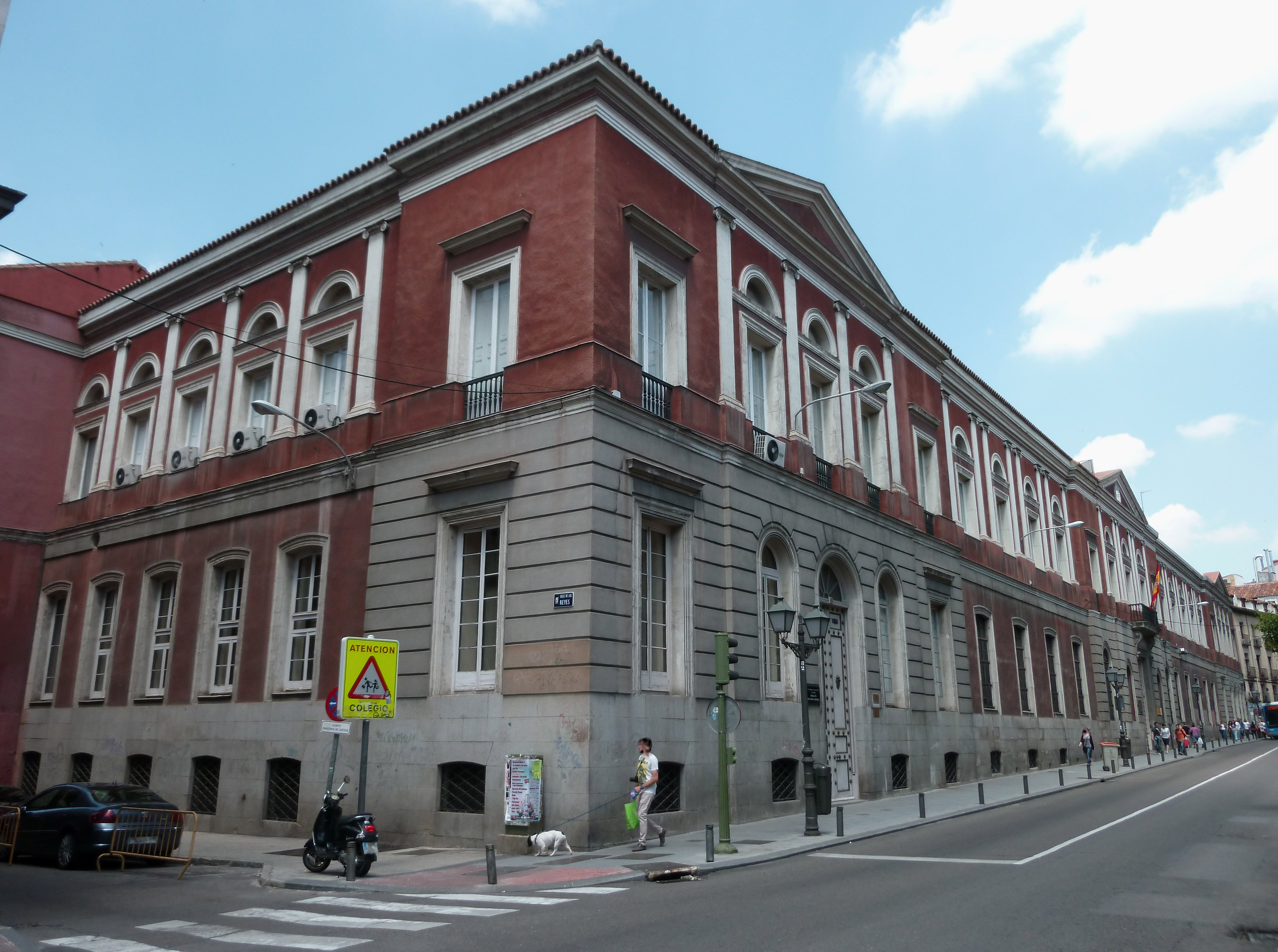 Façade of Caserón de San Bernardo (home of the former Central University) in Madrid (Spain), at 47-49 Calle de San Bernardo (street) in Centro district. Building was designed by Francisco Javier de Mariategui and Narciso Pascual Colomer, and built from 1842 to 1847.